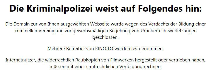 screenshot by ianusius